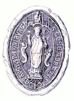 Seal of Abbot of Dryburgh Abbey, Scotland